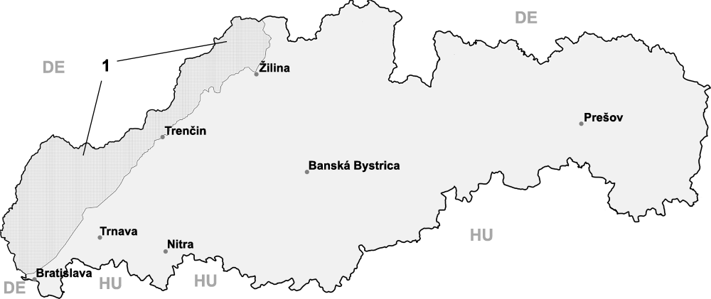 Map of Slovakia with border of 1940